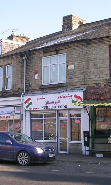 Kurdish restaurant - Alder Street, Huddersfield, West Yorkshire, England کوردی: چێشتخانەی کوردی - شەقامی ئەدلەر، ھەدەرزفیلد، یۆرکشیری ڕۆژاوا، ئینگلستان Kurdî: Xwaringeha kurdî ya Kurdistan, li kuçeya Alder, Huddersfield, West Yorkshire, Brîtanya